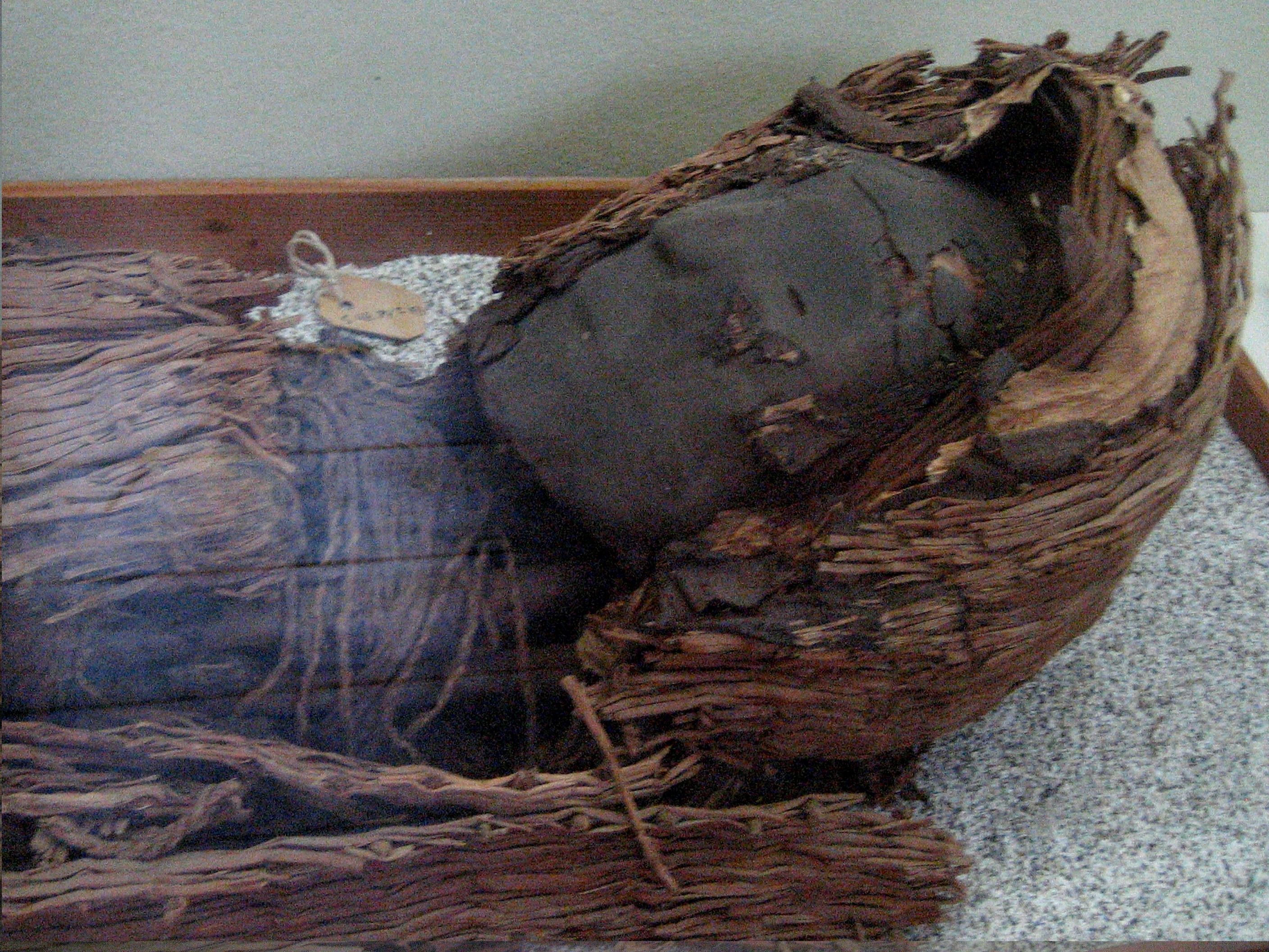 Head of a mummy from the Chinchorro culture, found in Northern Chile.